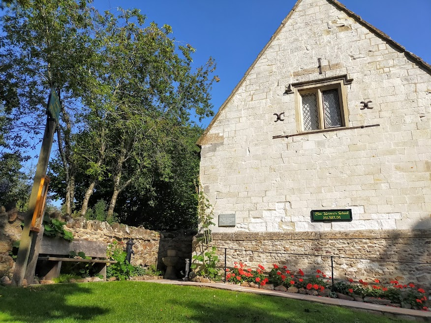 Tom Brown's school museum, Broad Street, Uffington, Oxfordshire (formerly Berkshire)